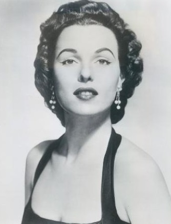 Bess Myerson in 1957